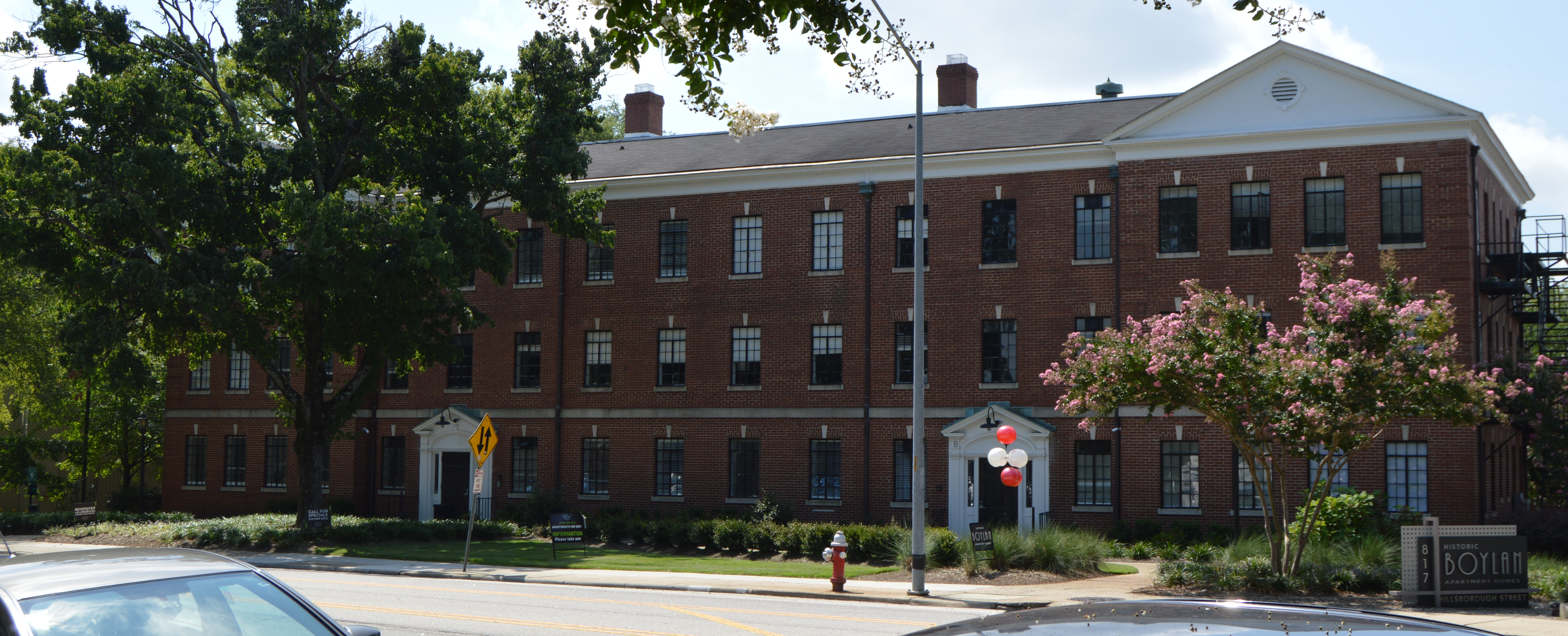 Northern side of the Boylan Apartments, located at 817 Hillsborough Street in Raleigh, North Carolina, United States. Built in 1924, it is listed on the National Register of Historic Places.